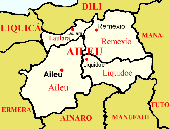 Subdistricts of District of Aileu/East Timor.